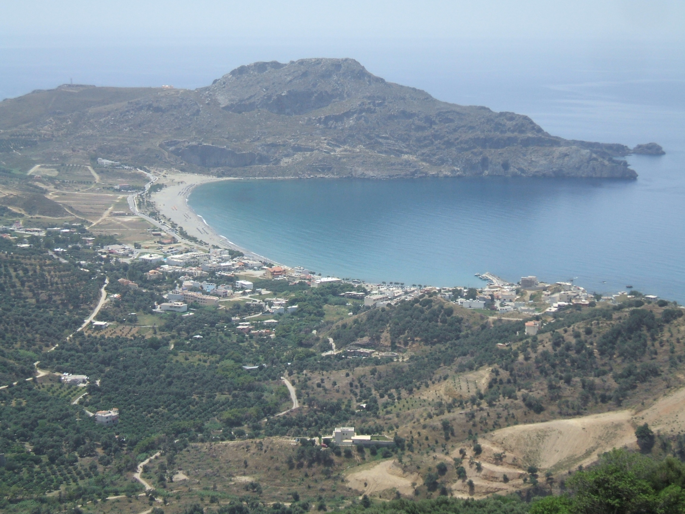 View of Plakias bay, Crete